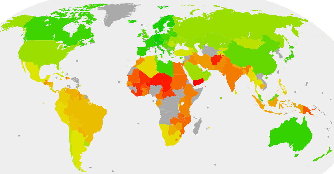 Countries by Gender Inequality Index 2014. Red denotes more gender inequality, and green more equality. Reference: Human Development Report 2015: Work for Human Development - Table 5: Gender Inequality Index. United Nations Development Programme (2014). Retrieved on 2016-11-19.